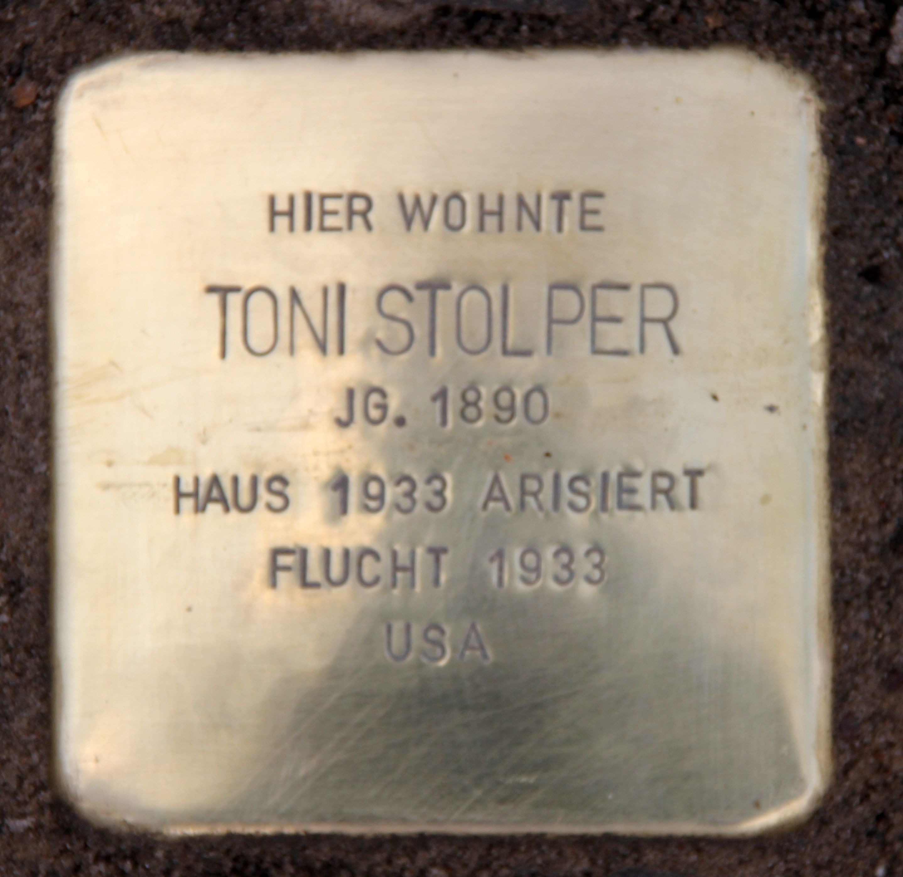 "Stolperstein" (stumbling block), Toni Stolper, Englerallee 25, Berlin-Dahlem, Germany